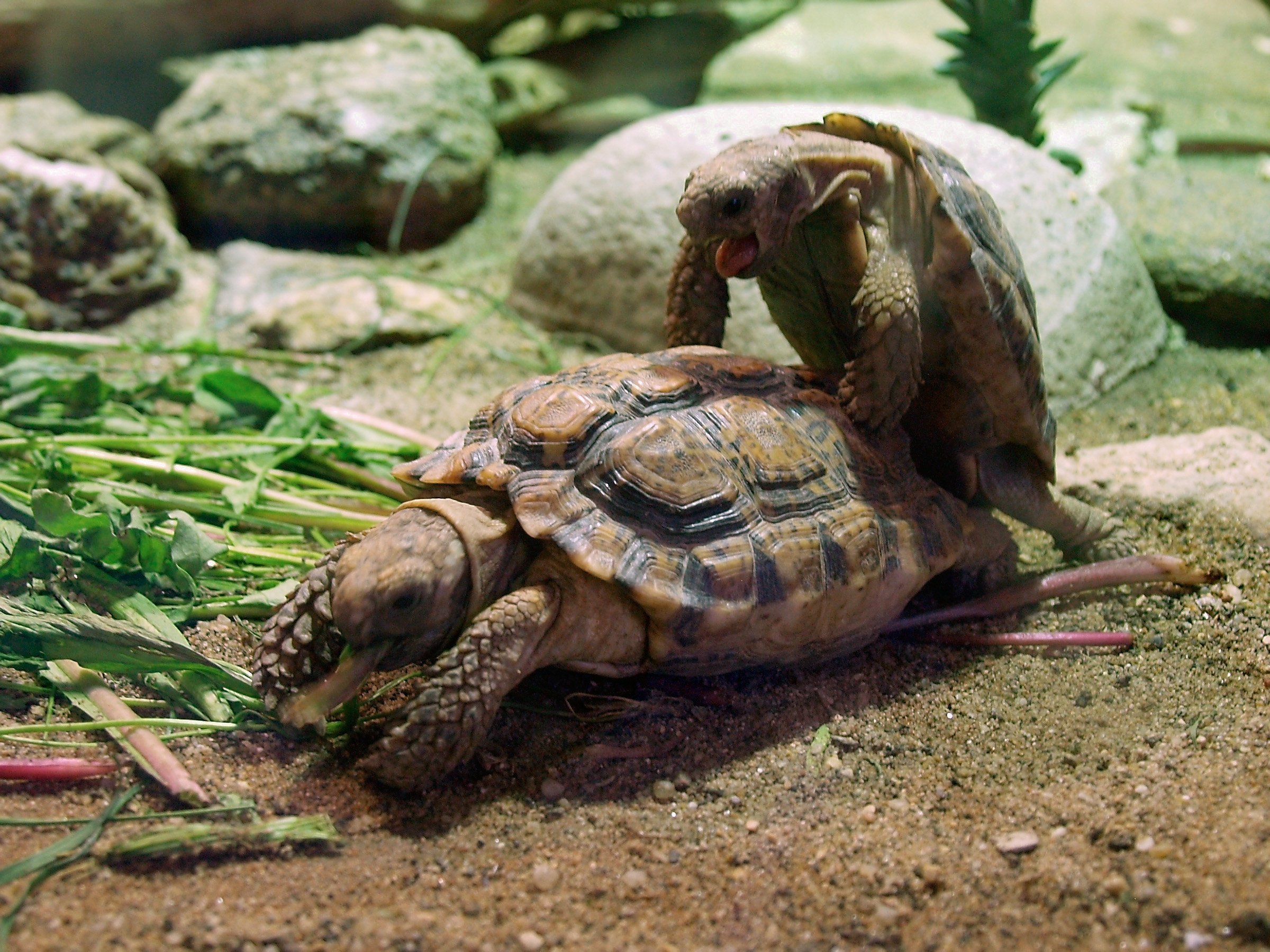 The world’s smallest tortoise Speckled Padloper Tortoise (Homopus signatus) copulating in Prague Zoo (taken through the glass)